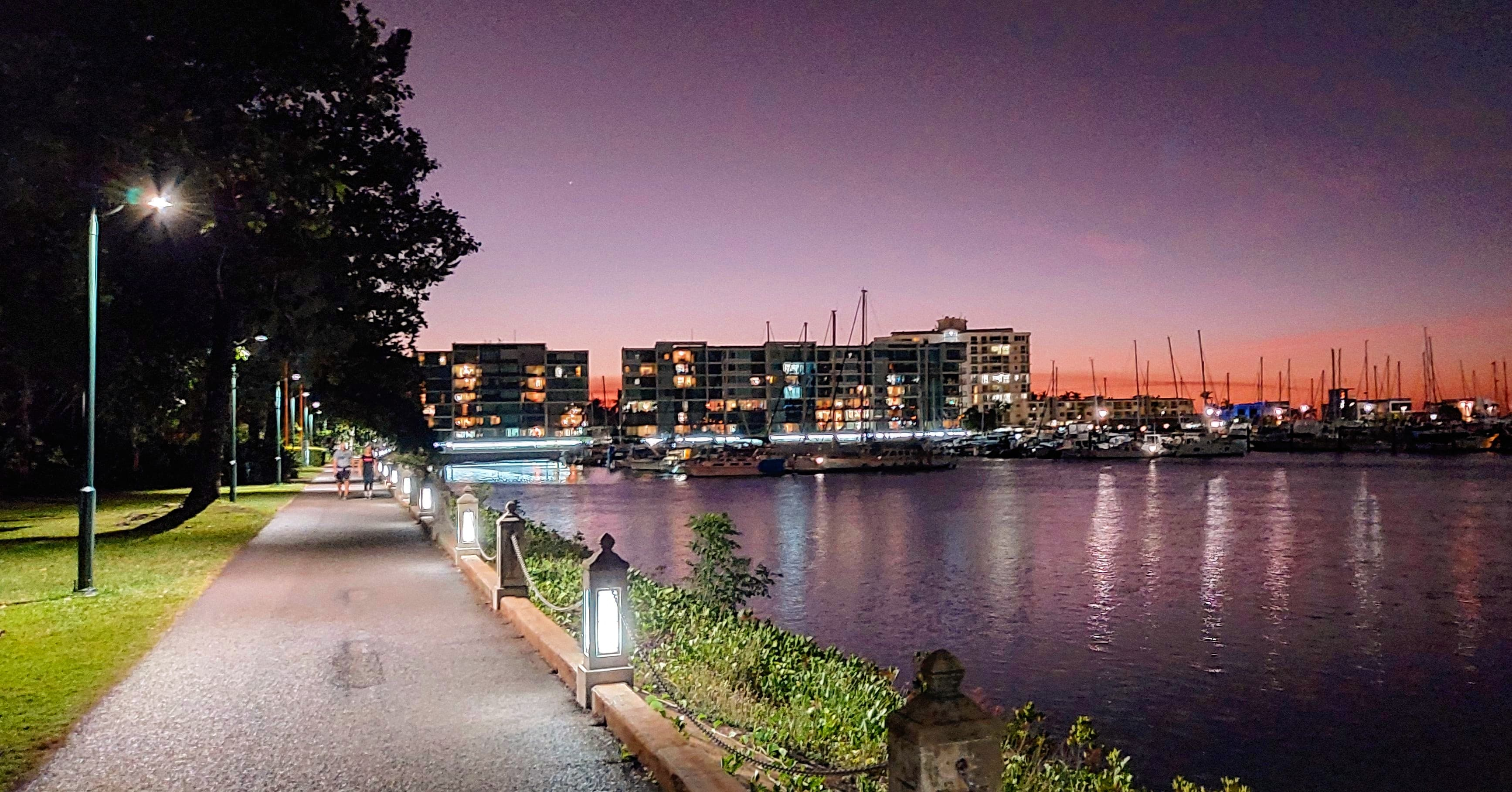 Breakwater Marina Townsville at dusk in June 2020